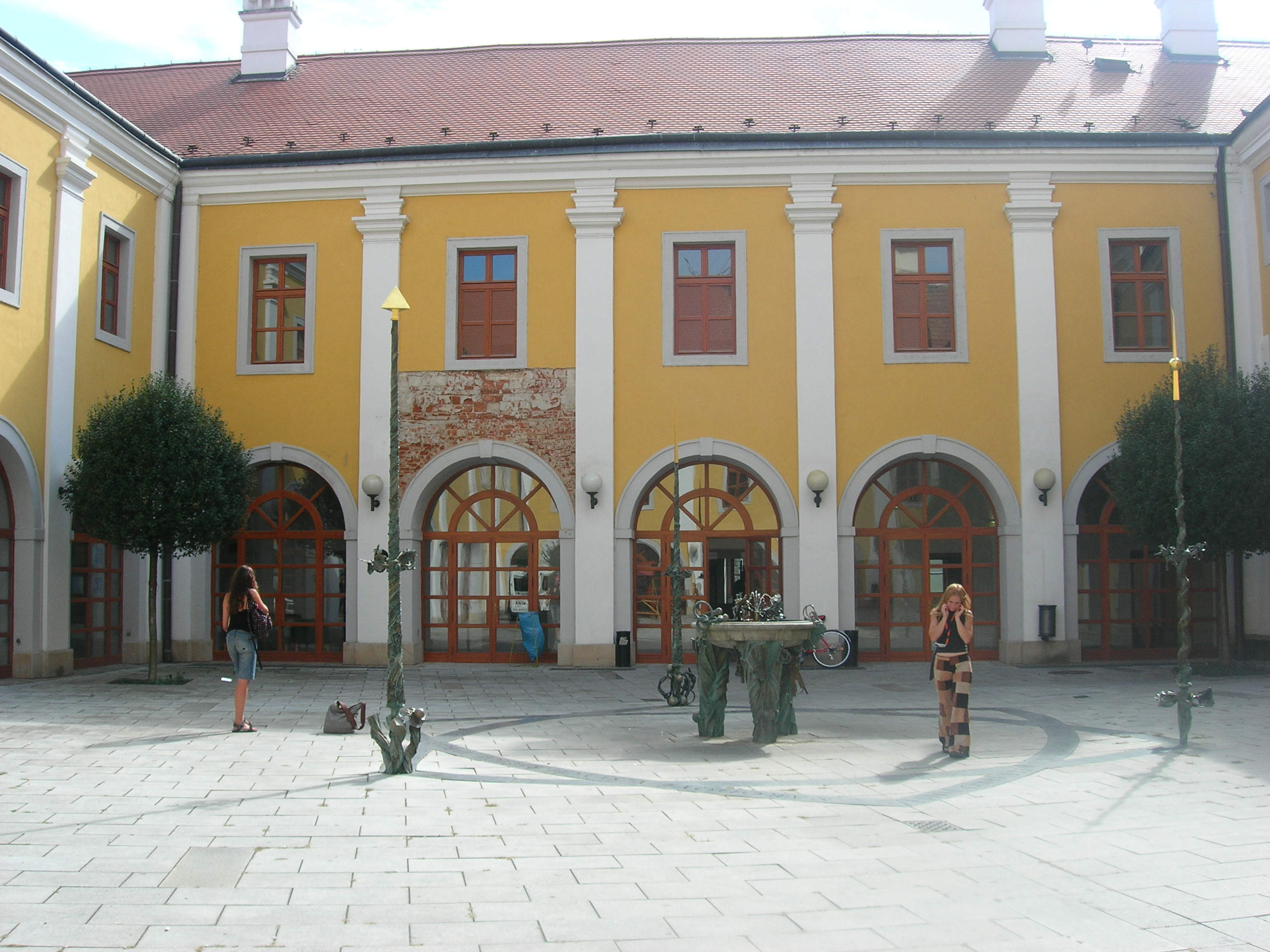 Summer school of film (Letni filmova skola) in Uherske Hradiste, Czech Republic, Reduta cinema